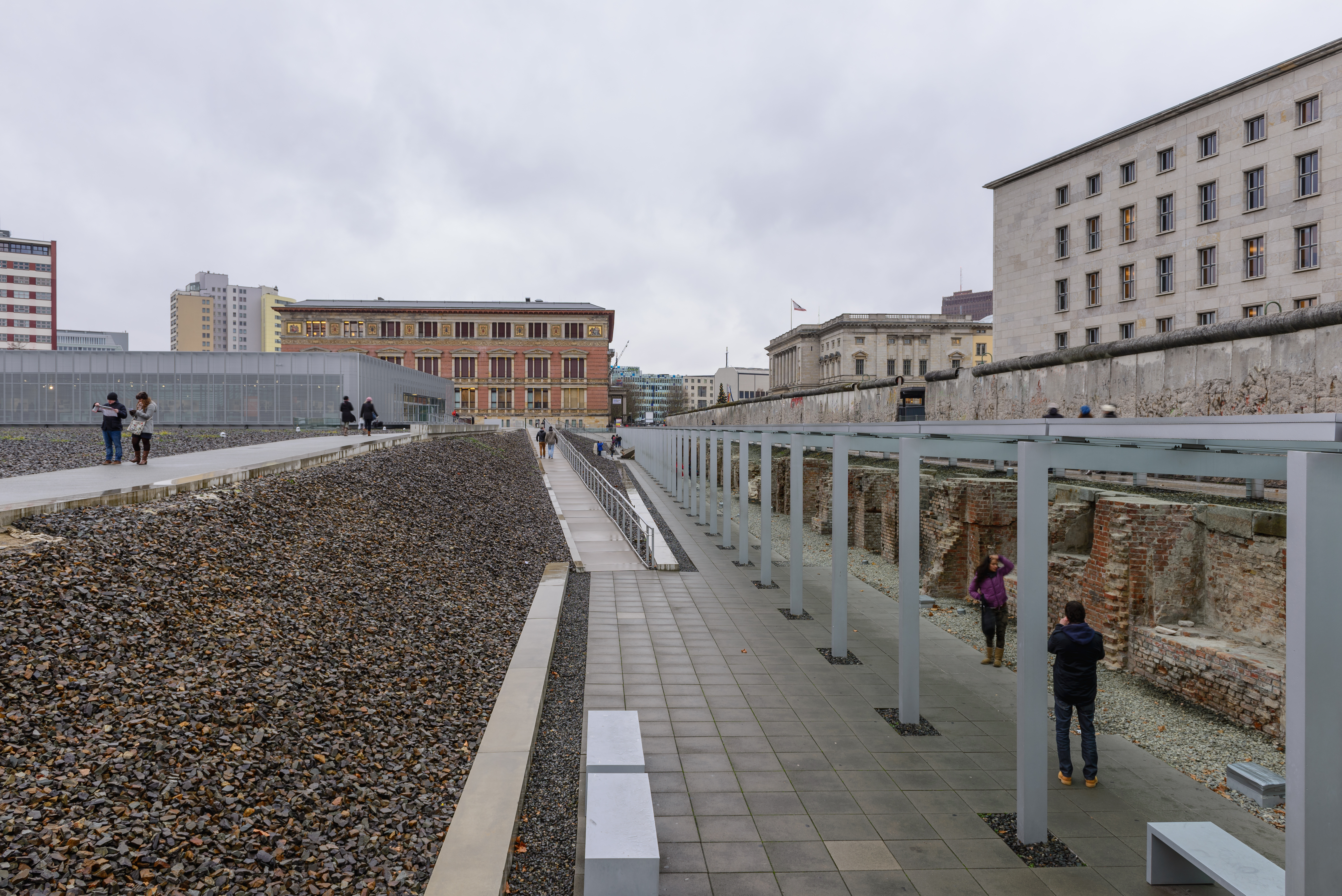 The site of the museum and documentation centre Topography of Terror on Niederkirchnerstrasse in Berlin. To the left, the new museum building. To the right remains of the Berlin Wall and of the basement of the Gestapo headquarter. In the background the Martin-Gropius-Bau and the Preußischer Landtag building.